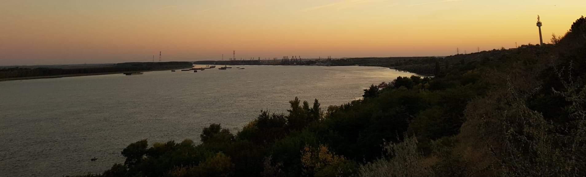 The Danube river seen from Galati